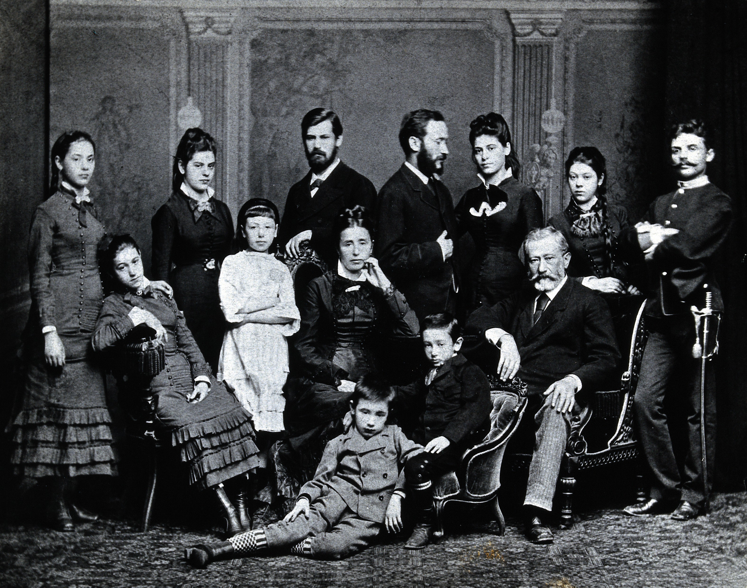 Freud family group. Photograph, c.1876. Iconographic Collections Keywords: portrait photographs